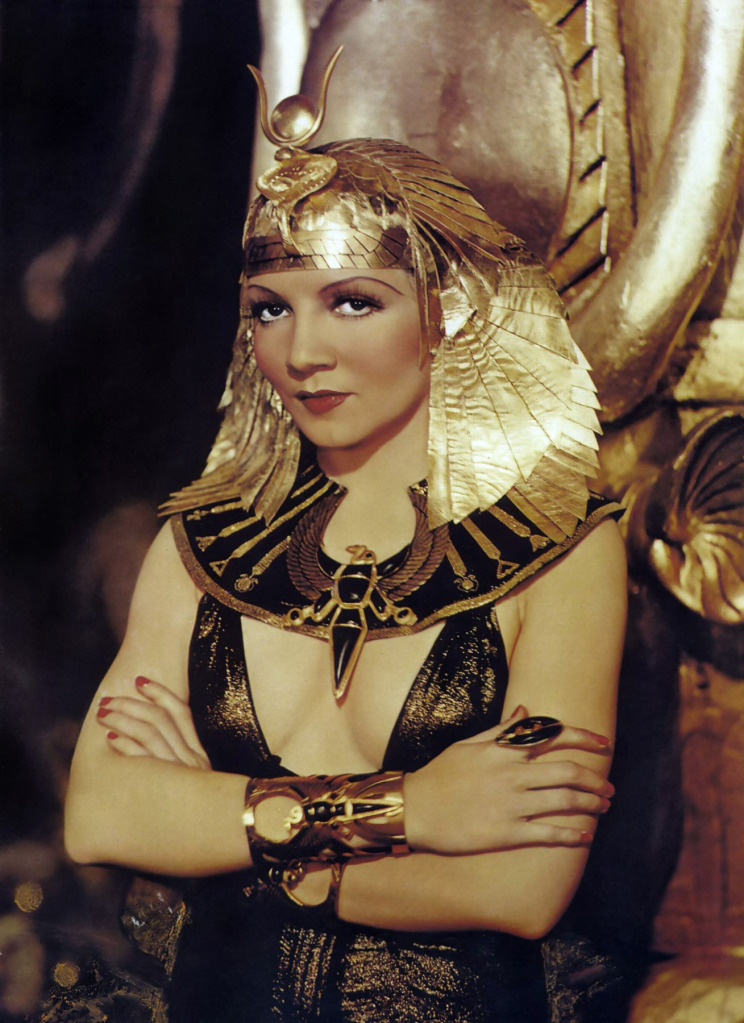 Publicity photo of Claudette Colbert for the film Cleopatra.